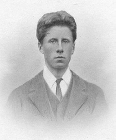 Hugh Lofting as a young man